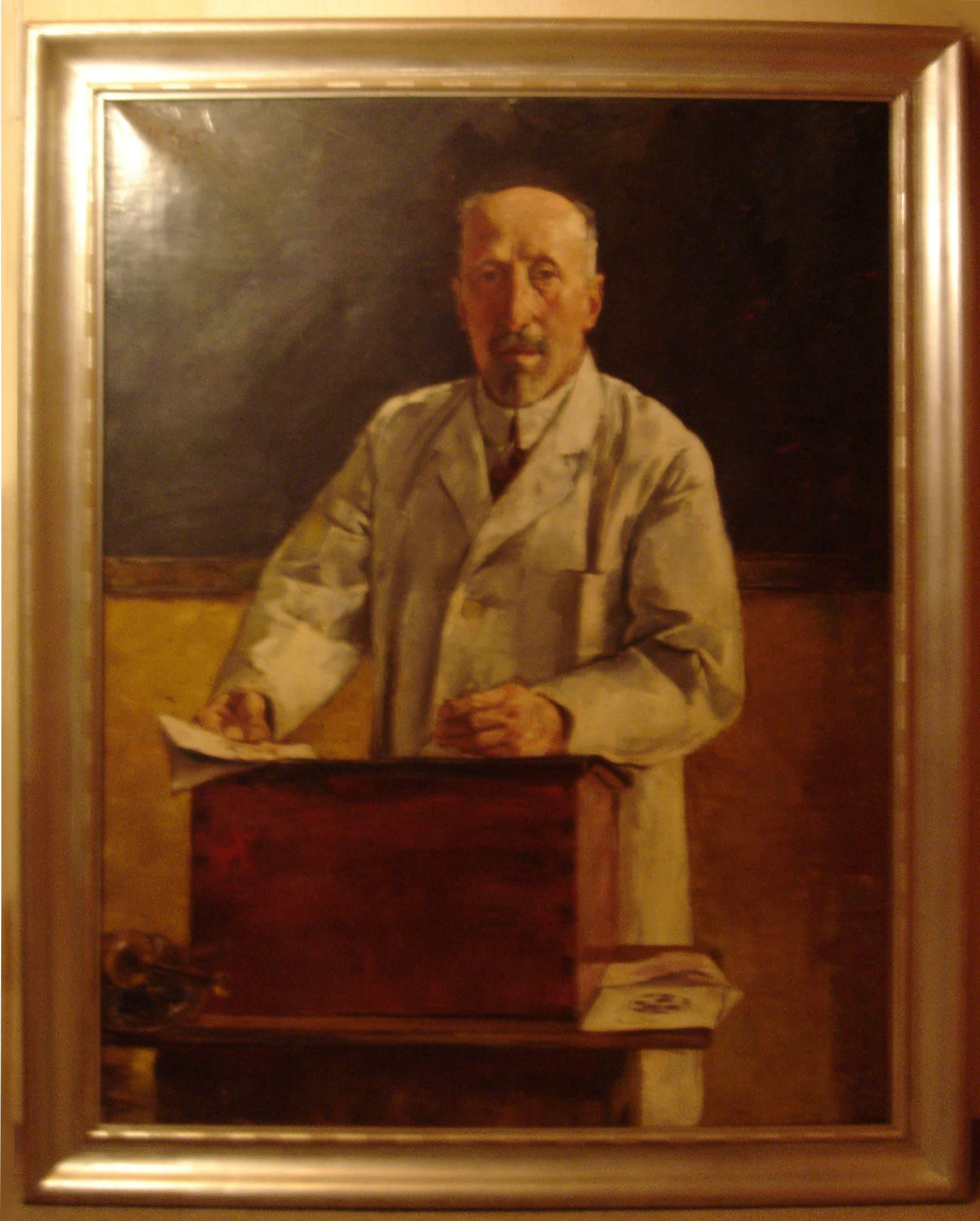 Julius Strasburger (1871-1934), oil on canvas, 110 cm x 137 cm, painted around 1914 by an unknown artist in Frankfurt/Germany for the founders gallery of Frankfurt University. Photo taken by Hans Strasburger, Munich, Germany